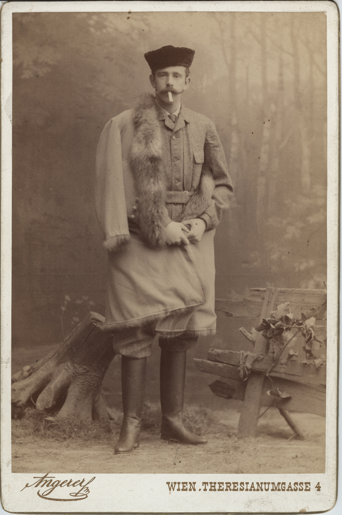 Crown Prince Rudolph; Mayerling, scene of the drama with Crown Prince Rudolph of Austria.